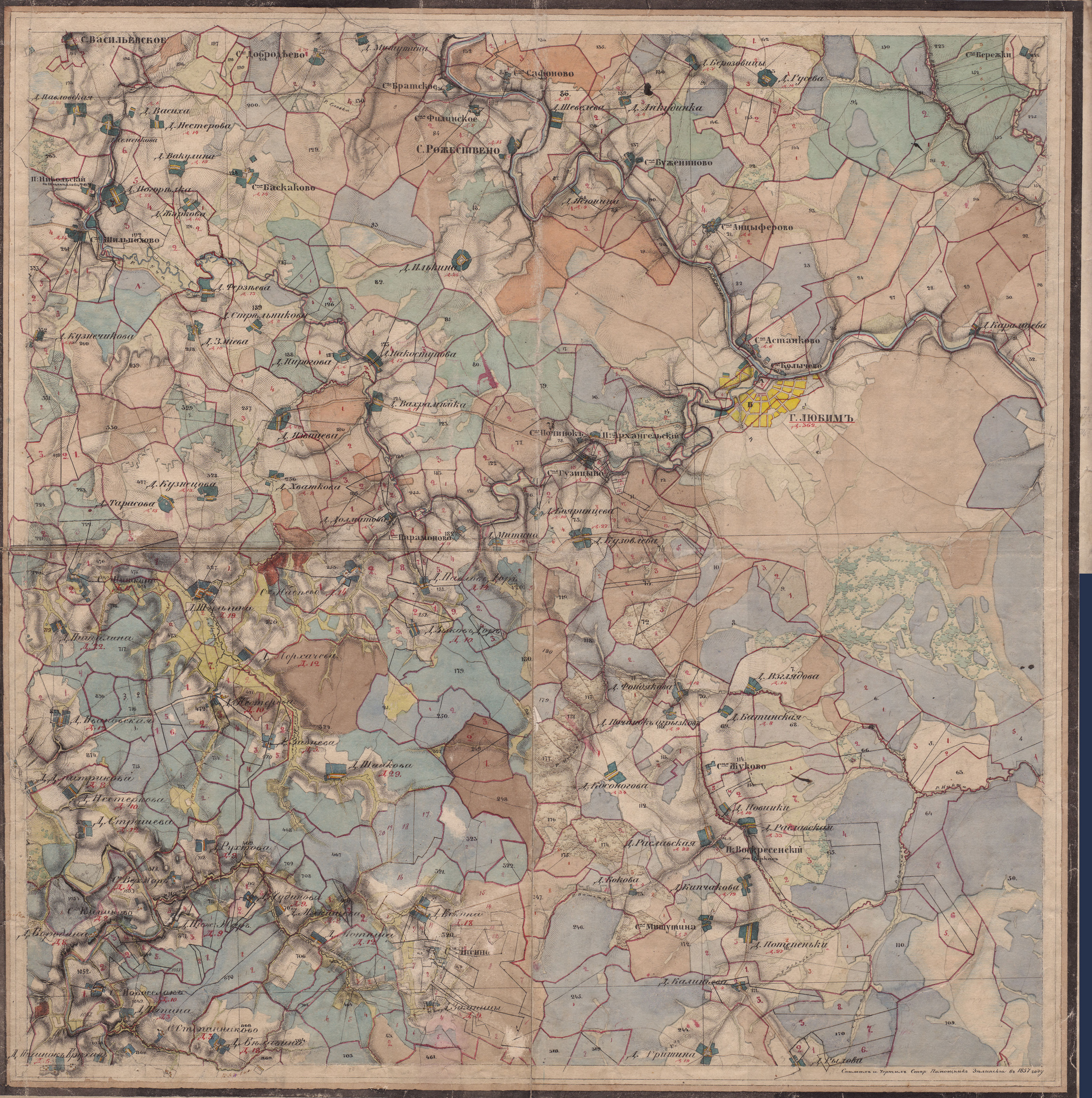 Lyubim, 1858